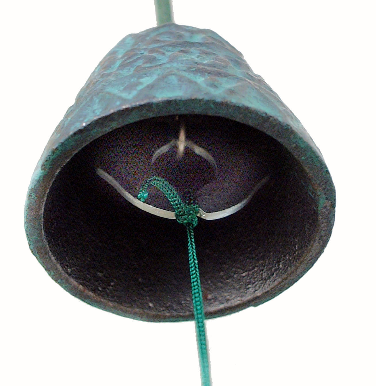 Japanese Wind Bell, photo taken in Japan